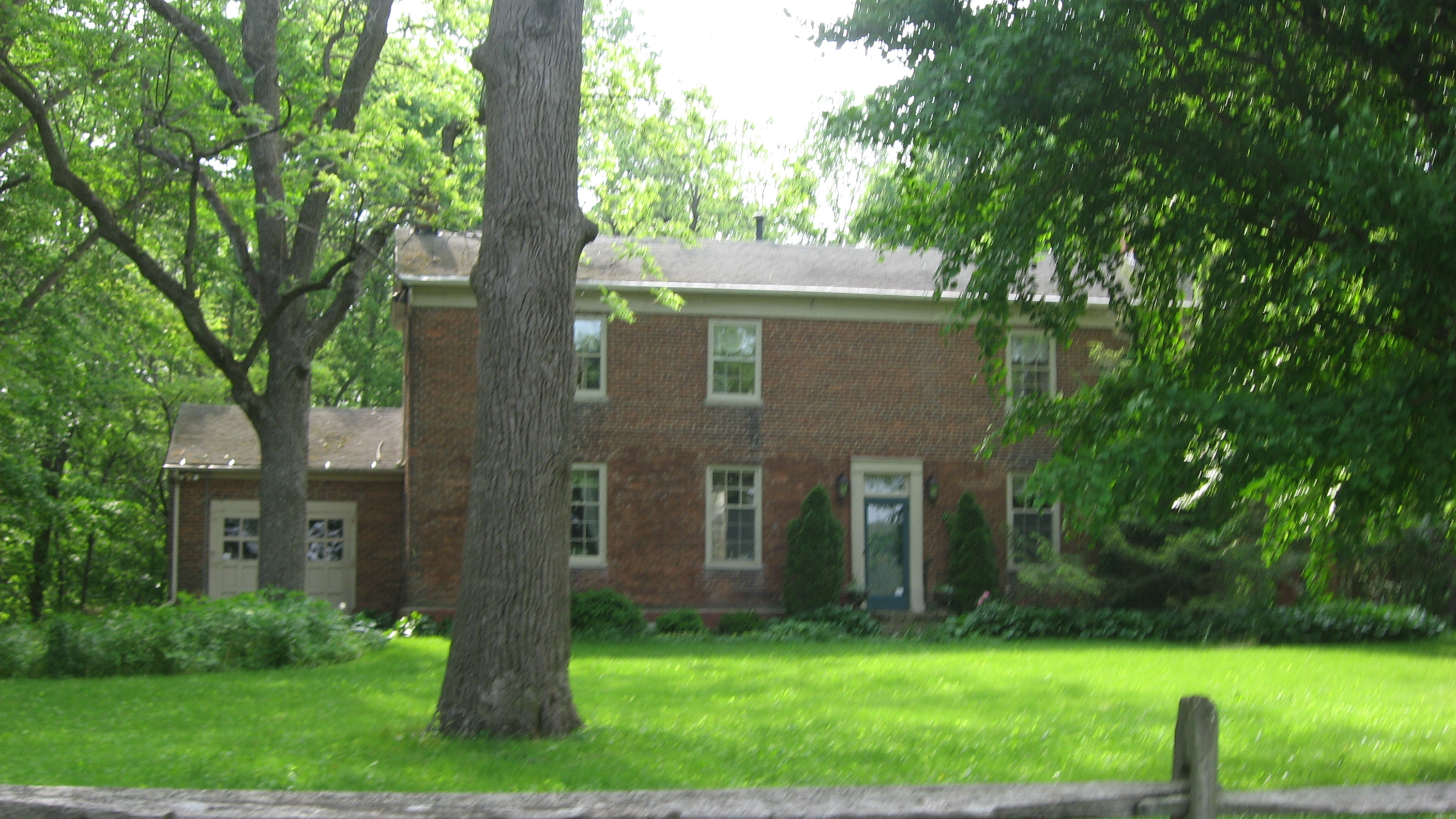 Front of the James Pierce Jr. House, located at 4624 N. 140W north of West Lafayette in Wabash Township, Tippecanoe County, Indiana, United States. Built in 1833, it is listed on the National Register of Historic Places.